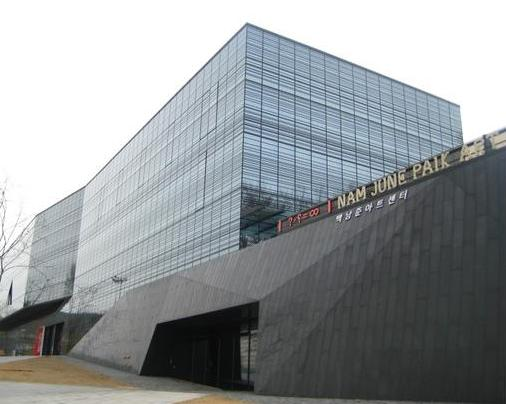 Nam June Paik Art Center, Yongin-si Gyeonggi-do of Korea